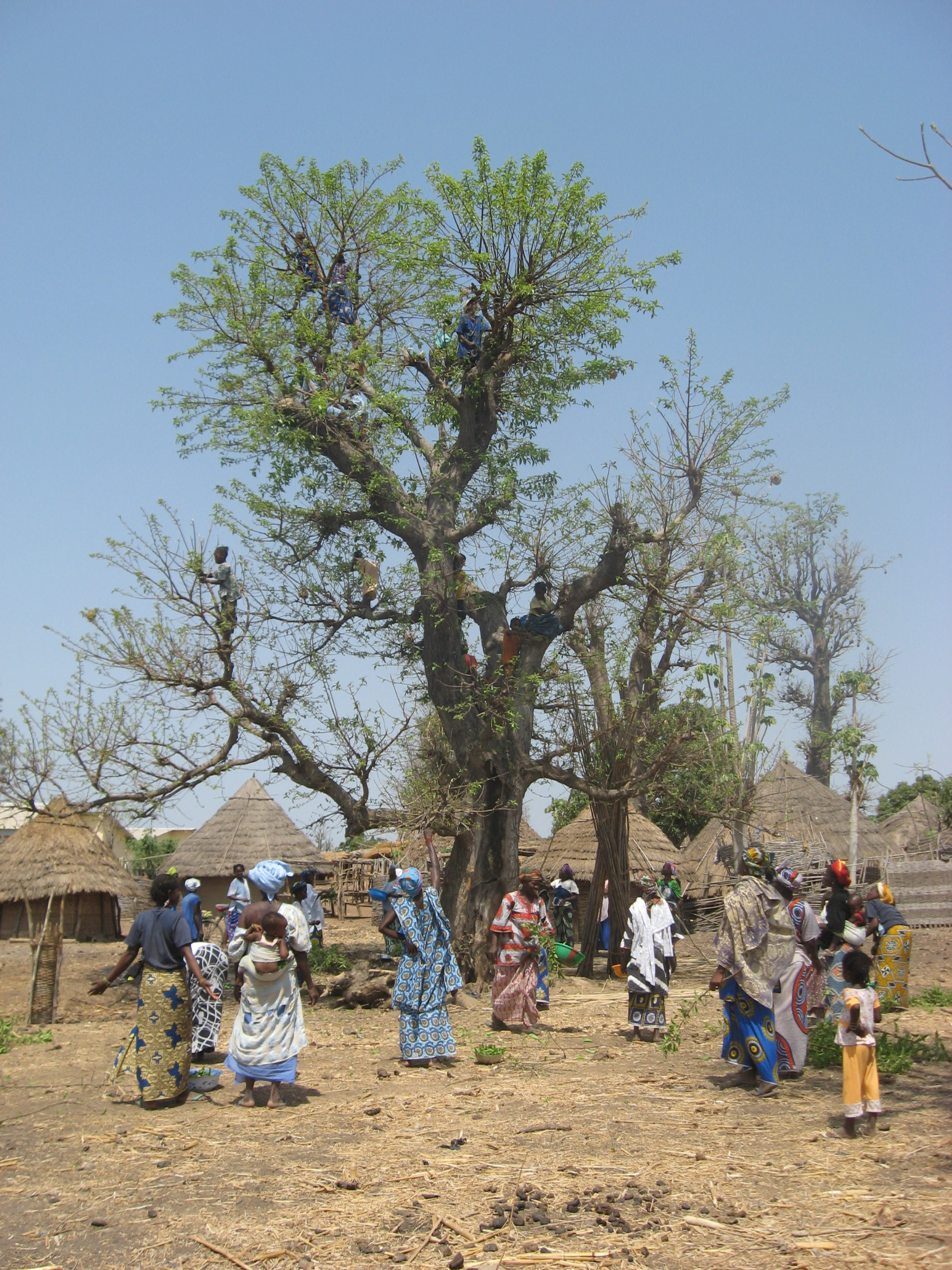 Khaya senegalensis in Thiabedji (Eastern Senegal)